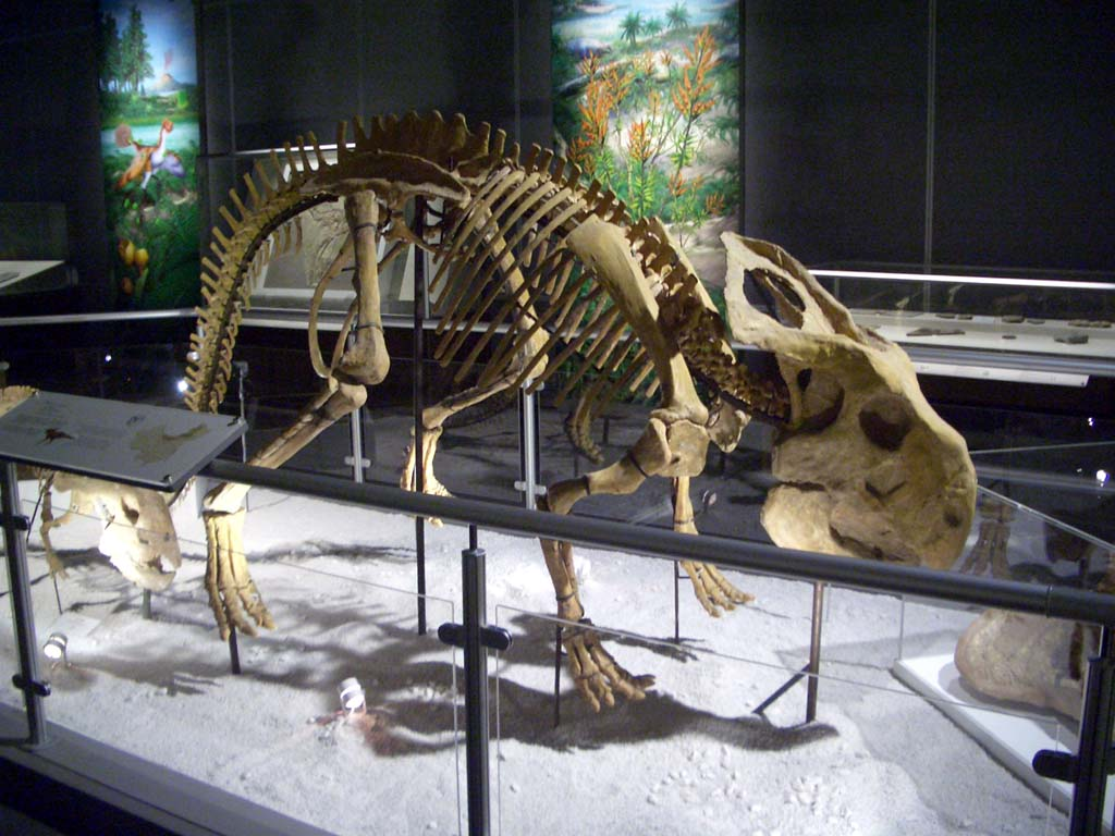 Protoceratops adult skeleton displayed in Hong Kong Science Museum